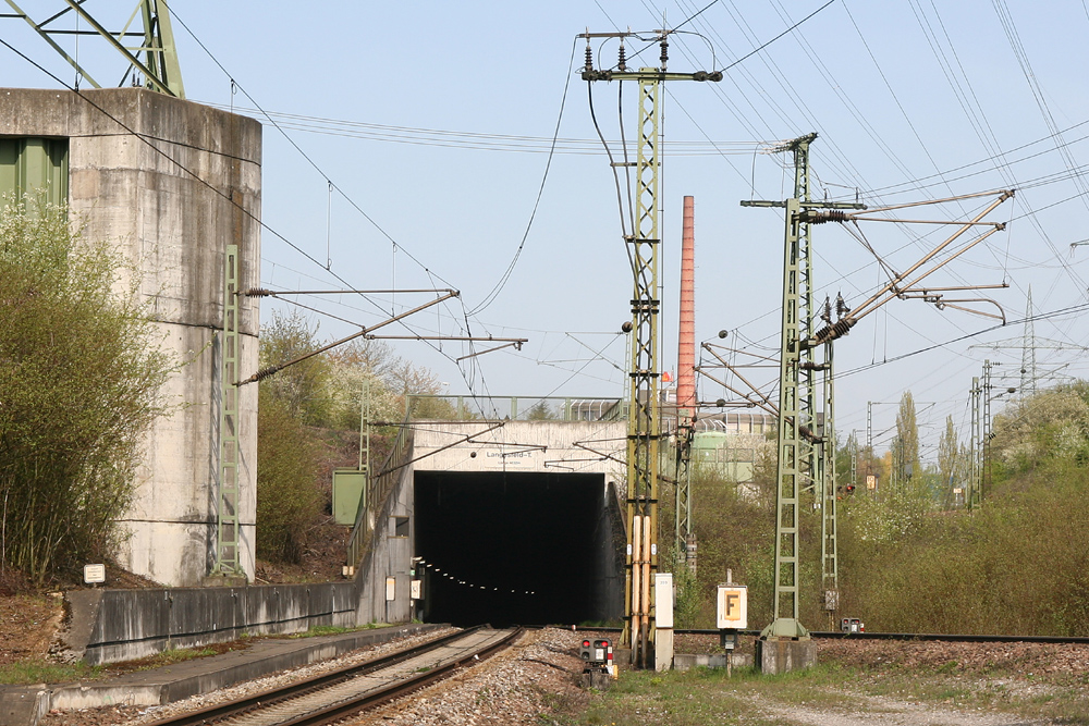 On of the three southern entrances to the Langes Feld Tunnel. Trains headed for Stuttgart Hauptbahnhof used this portal.